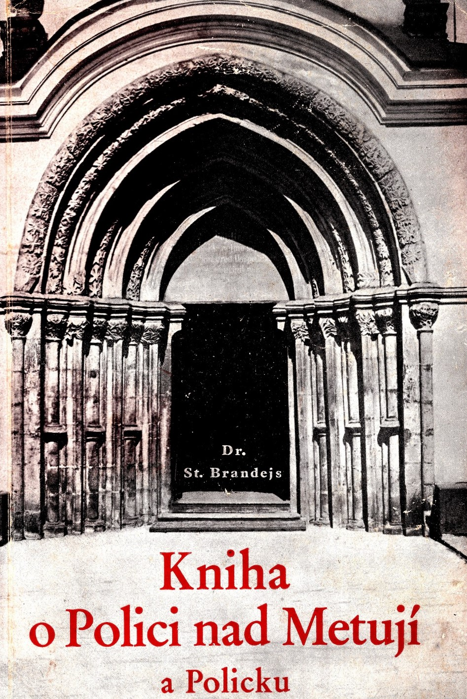 Book cover "Kniha o Polici nad Metují"